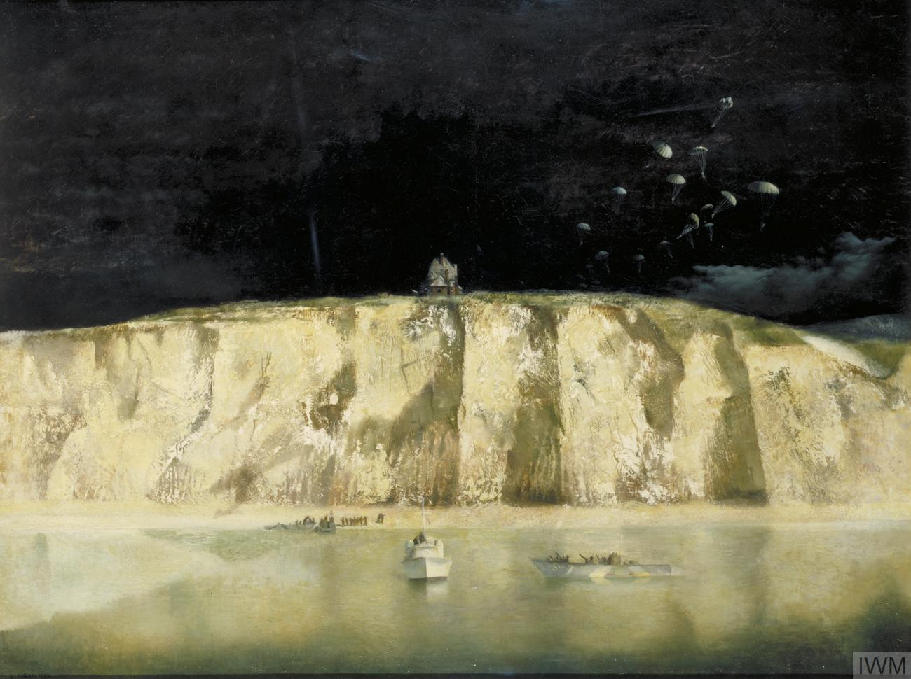 The Raid on the Bruneval Radio-location Station, 27th-28th February 1942 image: white cliffs, lit by a flare, against a dark sky and showing the radar-location station on the cliff-top. A group of parachutes descend on the upper right of the composition, with two motor-boats on the water. The flare has been fired by a group of soldiers on the beach below the cliff.